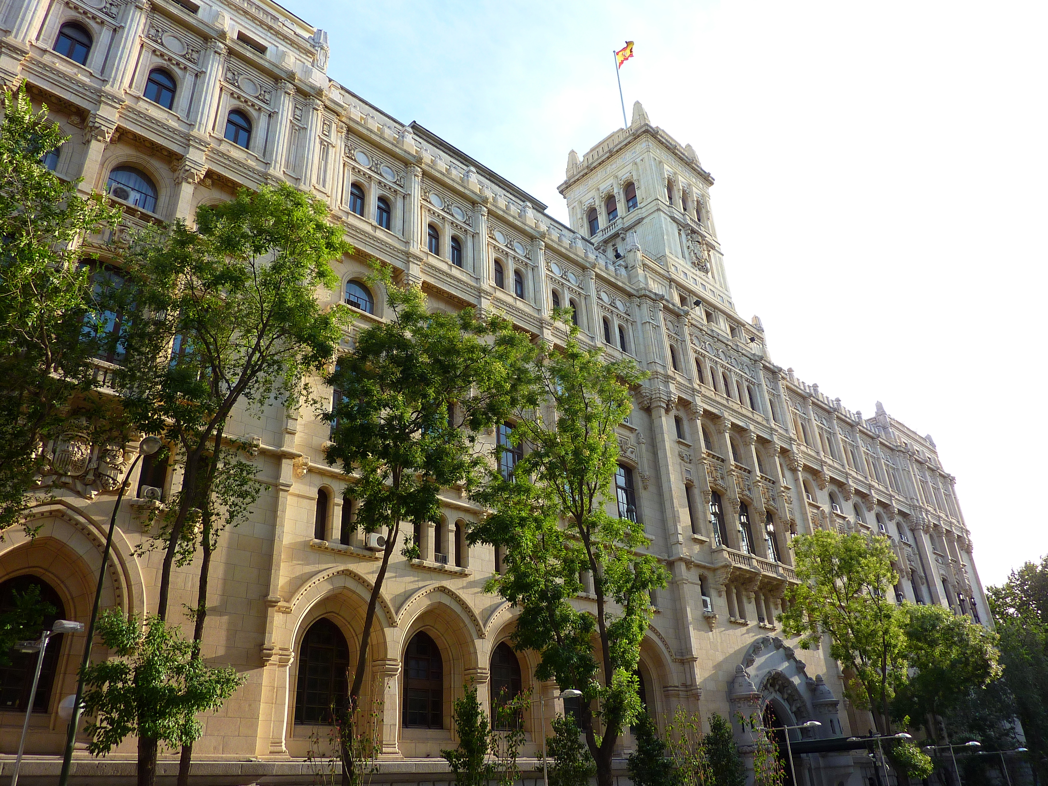 Headquarters of the Spanish Navy, in Madrid.